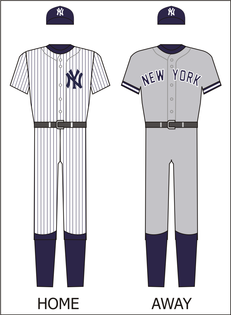 Cropped version of Yankees 2012 uniforms. Adapted to be used in thumbnails.